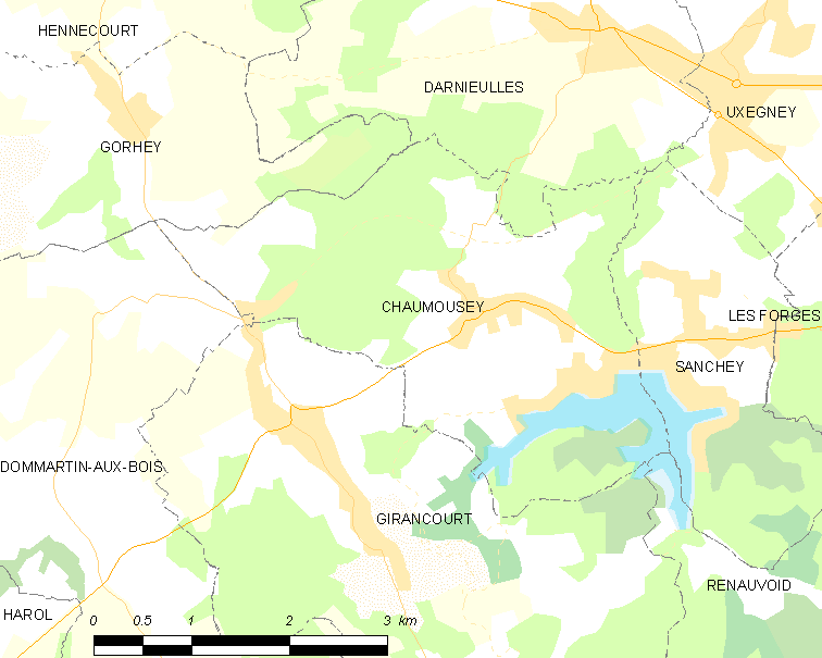 Map of French municipality Chaumousey